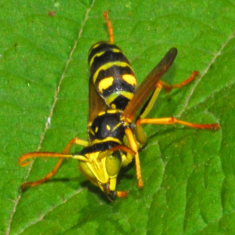 Polistes associus. Male. Cerreto. Alessandria, Italy